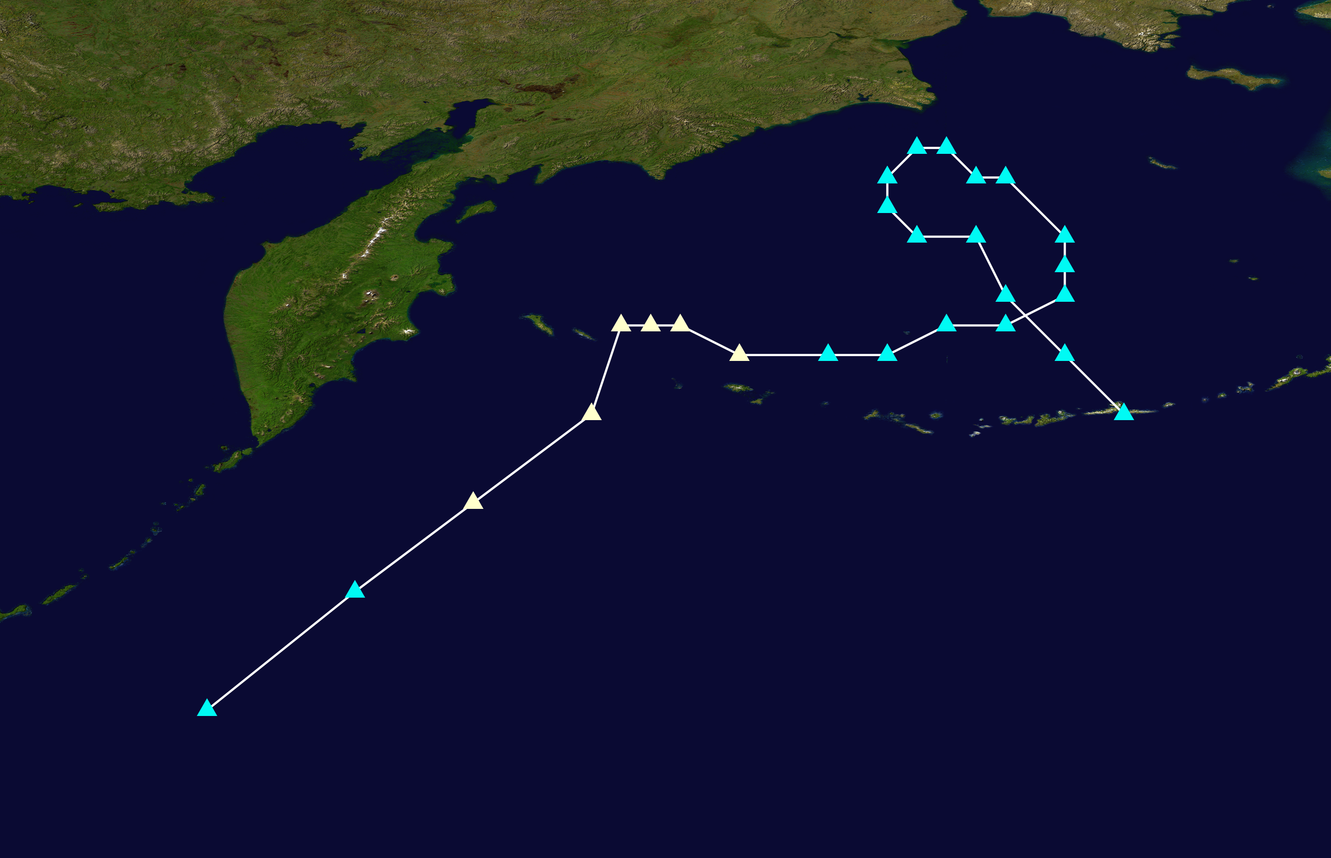 Track map of the November 2014 Bering Sea bomb cyclone. The points show the location of the storm at 6-hour intervals. The color represents the storm's maximum sustained wind speeds as classified in the Saffir-Simpson Hurricane Scale (see below), and the shape of the data points represent the nature of the storm, according to the legend below. Saffir–Simpson scale Tropical depression≤38 mph≤62 km/h Category 3111–129 mph178–208 km/h Tropical storm39–73 mph63–118 km/h Category 4130–156 mph209–251 km/h Category 174–95 mph119–153 km/h Category 5≥157 mph≥252 km/h Category 296–110 mph154–177 km/h Unknown Storm typeTropical cycloneSubtropical cycloneExtratropical cyclone / Remnant low / Tropical disturbance